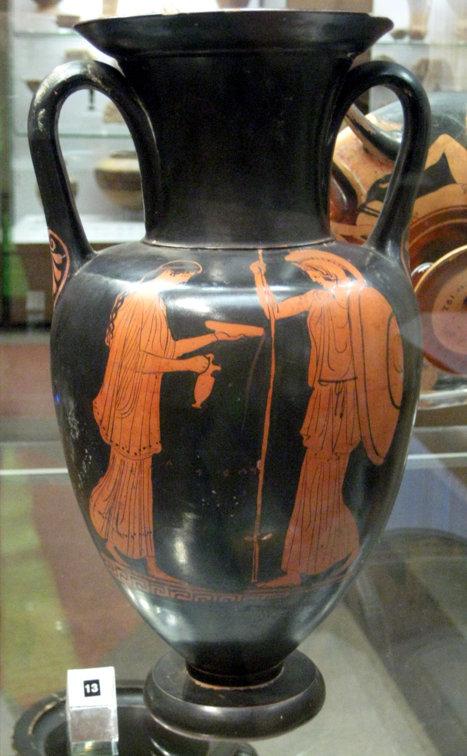 Nolan amphora: Athena and Hebe: a youth. The Painter of London E342, about 460 BC. inv. II 1b 634